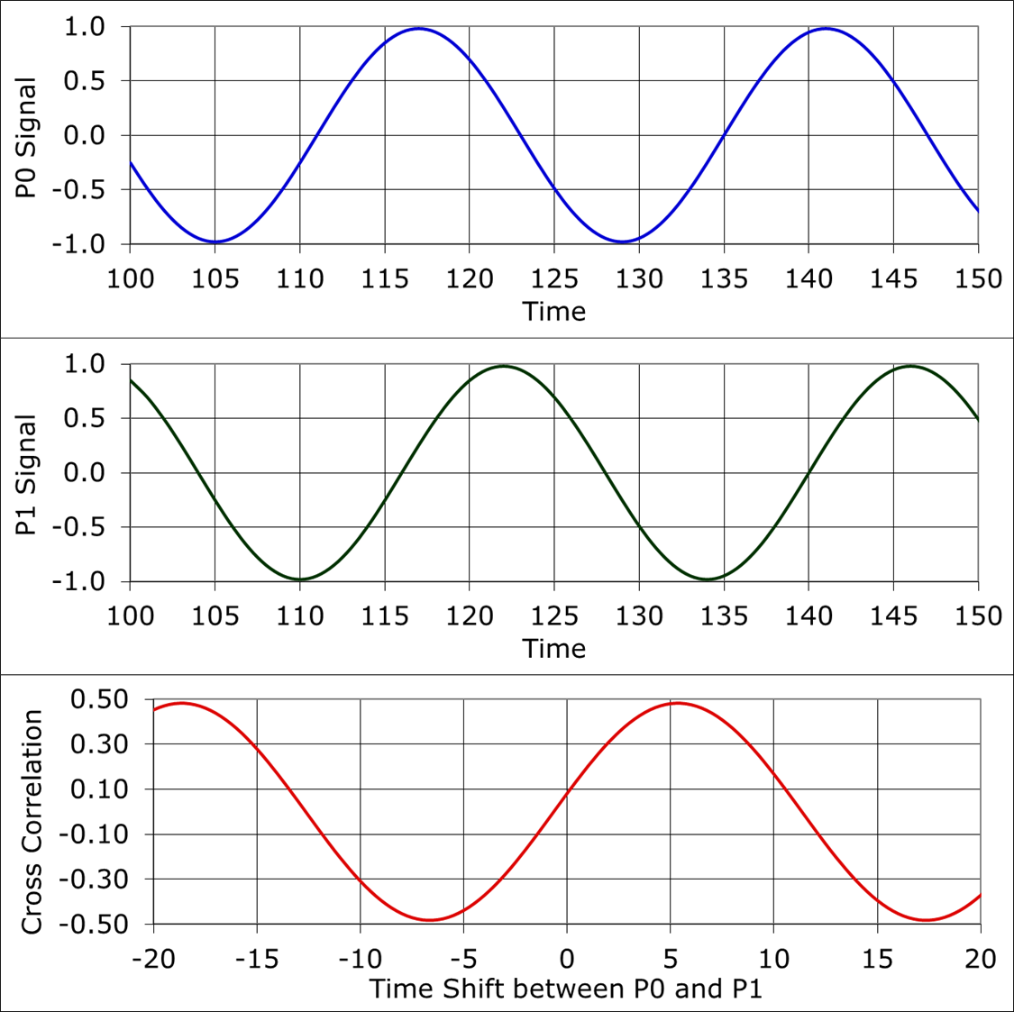 P0 is an examples of a narrow-band, time series signal. The time units are arbitrary. It was produced with the sin function, frequency = 12. P1 is P0 shifted to the Right by 5. The bottom graph is the cross correlation of P0 and P1 showing a max at T = 5 and repeating at multiples of the sin wave frequency.